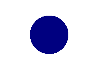 Union Army, I Corps - Army of the Potomac, 3rd Division Badge